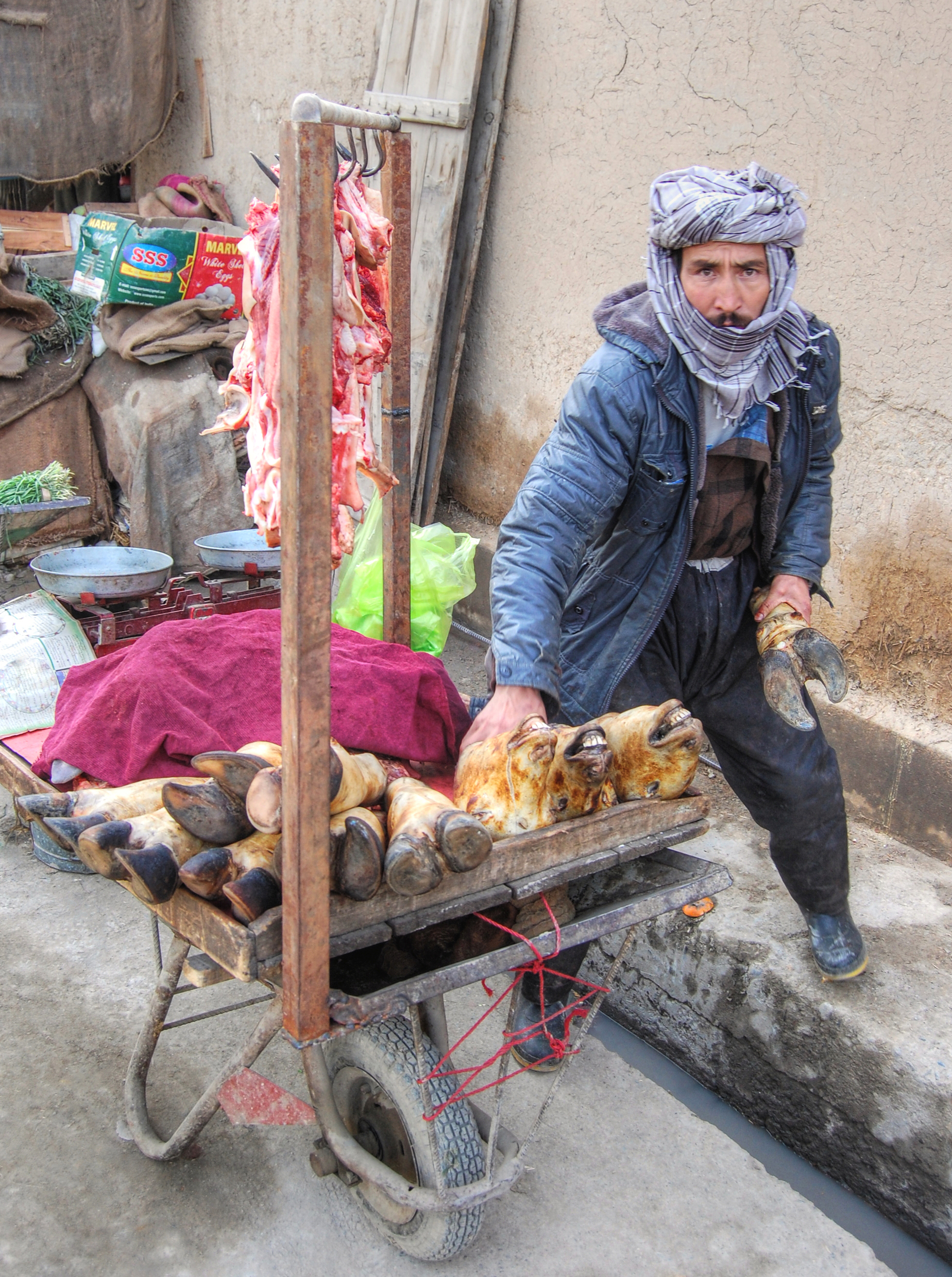 Goat meat seller in the streets of Kabul, Afghanistan.